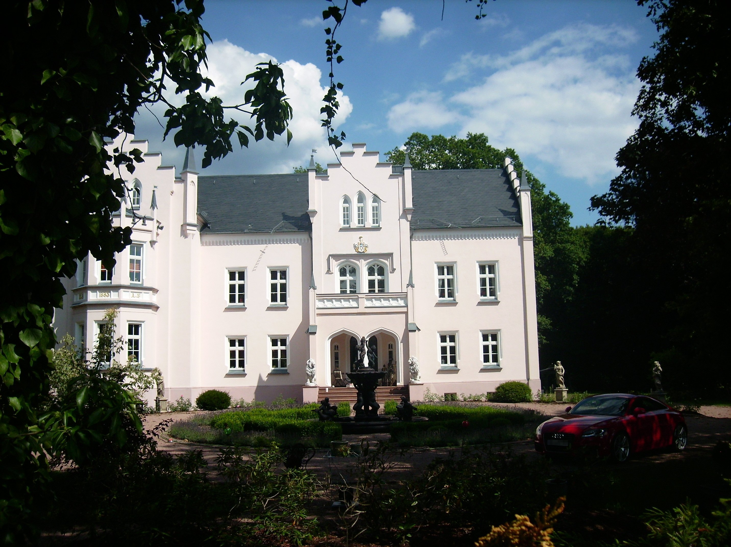 Schköna Castle (Gräfenhainichen, Wittenberg district, Saxony-Anhalt)